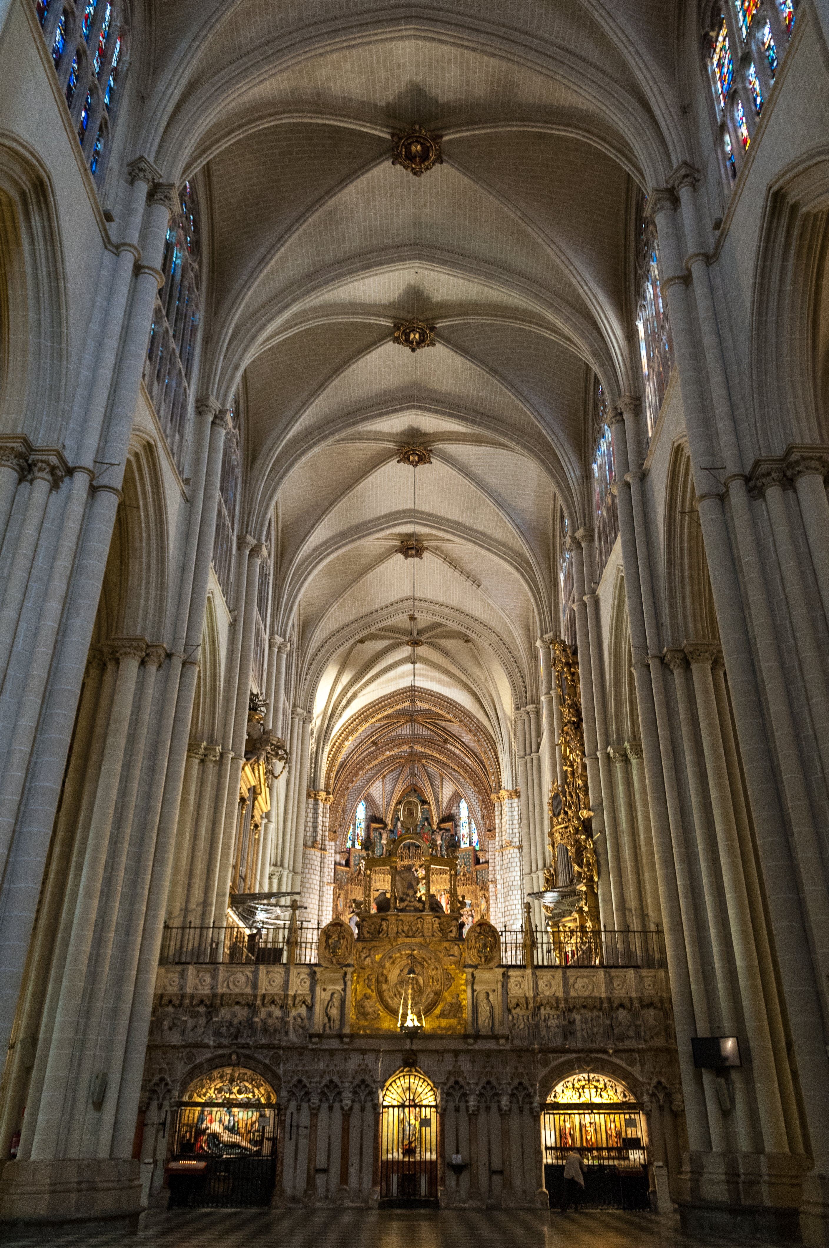 The Primate Cathedral of Saint Mary of Toledo (Spanish: Catedral Primada Santa María de Toledo) is a Roman Catholic cathedral in Toledo, Spain, see of the Metropolitan Archdiocese of Toledo. The cathedral of Toledo is one of the three 13th century High Gothic cathedrals in Spain and is considered, in the opinion of some authorities, to be the magnum opus of the Gothic style in Spain. It was begun in 1226 under the rule of Ferdinand III and the last Gothic contributions were made in the 15th century when, in 1493, the vaults of the central nave were finished during the time of the Catholic Monarchs. It was modeled after the Bourges Cathedral, although its five naves plan is a consequence of the constructors' intention to cover all of the sacred space of the former city mosque with the cathedral, and of the former sahn with the cloister. It also combines some characteristics of the Mudéjar style, mainly in the cloister, and with the presence of multifoiled arches in the triforium. The spectacular incorporation of light and the structural achievements of the ambulatory vaults are some of its more remarkable aspects. It is built with white limestone from the quarries of Olihuelas, near Toledo. It is popularly known as Dives Toletana (meaning The Rich Toledan in Latin) Cathedral of Toledo. (2012, March 12). In Wikipedia, The Free Encyclopedia. Retrieved 09:46, April 15, 2012, from